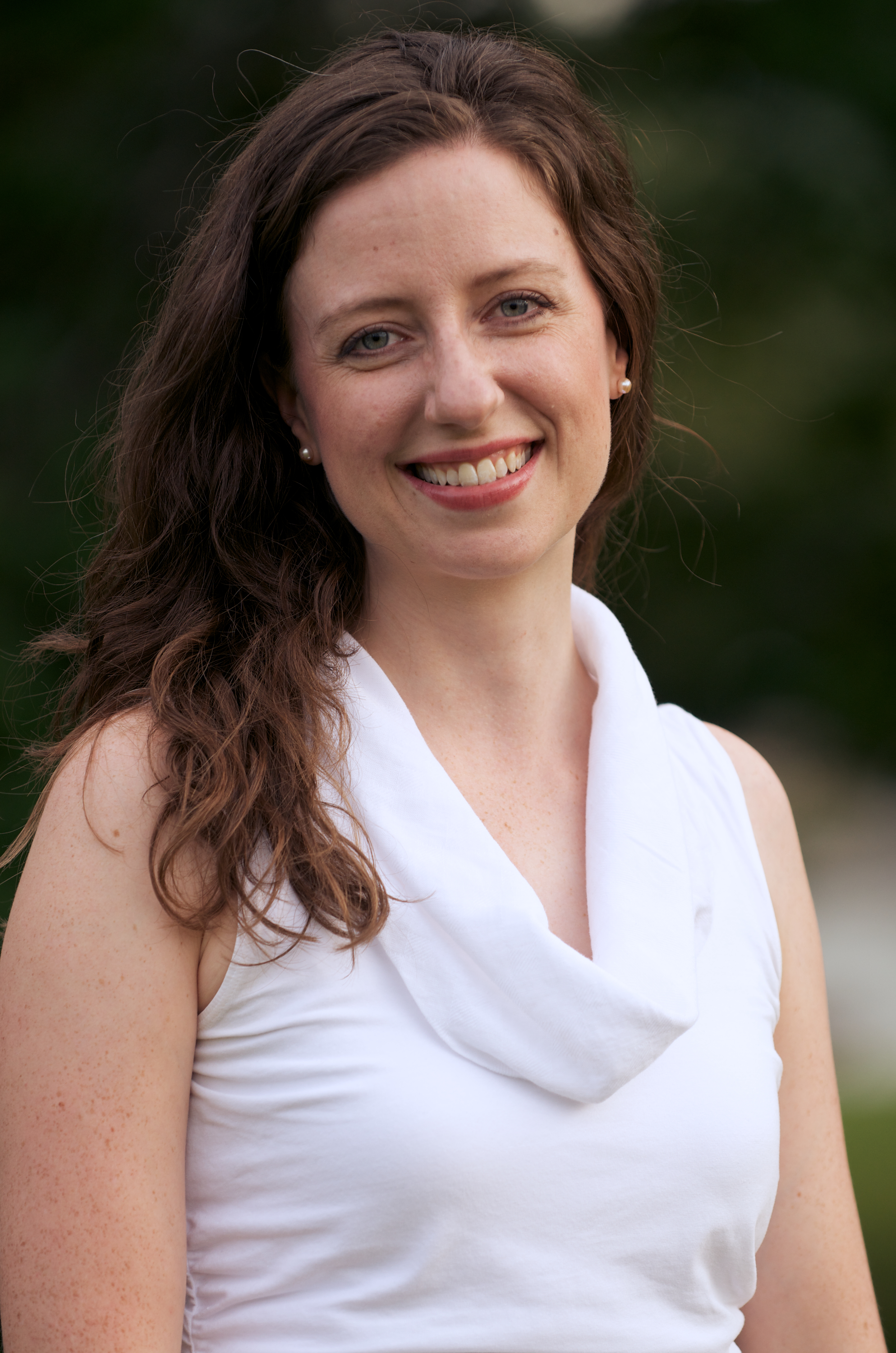 An official headshot of Stephanie Ann Gray, taken by me in 2013 at her request, outdoors in Baker Park, Calgary, Alberta, Canada.